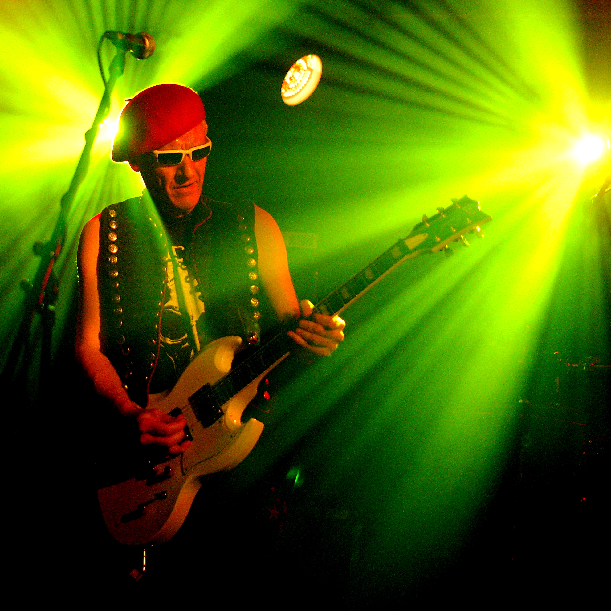 Captain Sensible of The Damned, at Talking Heads Club in Southampton on Nov 16th 2008